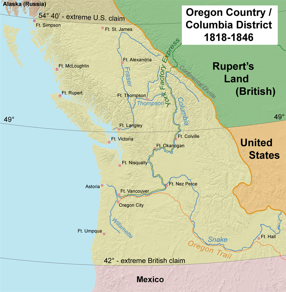 This map shows Oregon Country, 1818–1846